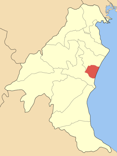 Locator map of Paralias municipality (Δήμος Παραλίας) at Pierias perfecture, Greece.